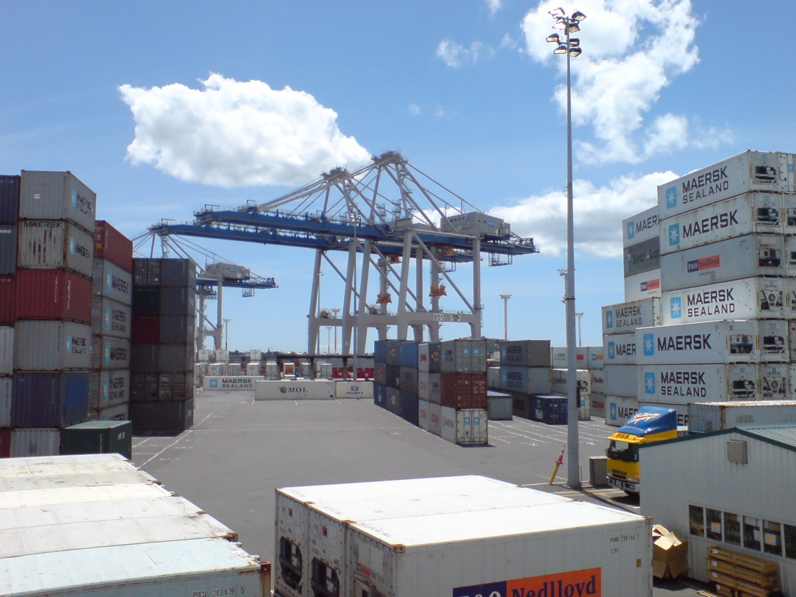 Ports of Auckland container facilities at Fergusson Wharf, Auckland City, New Zealand.